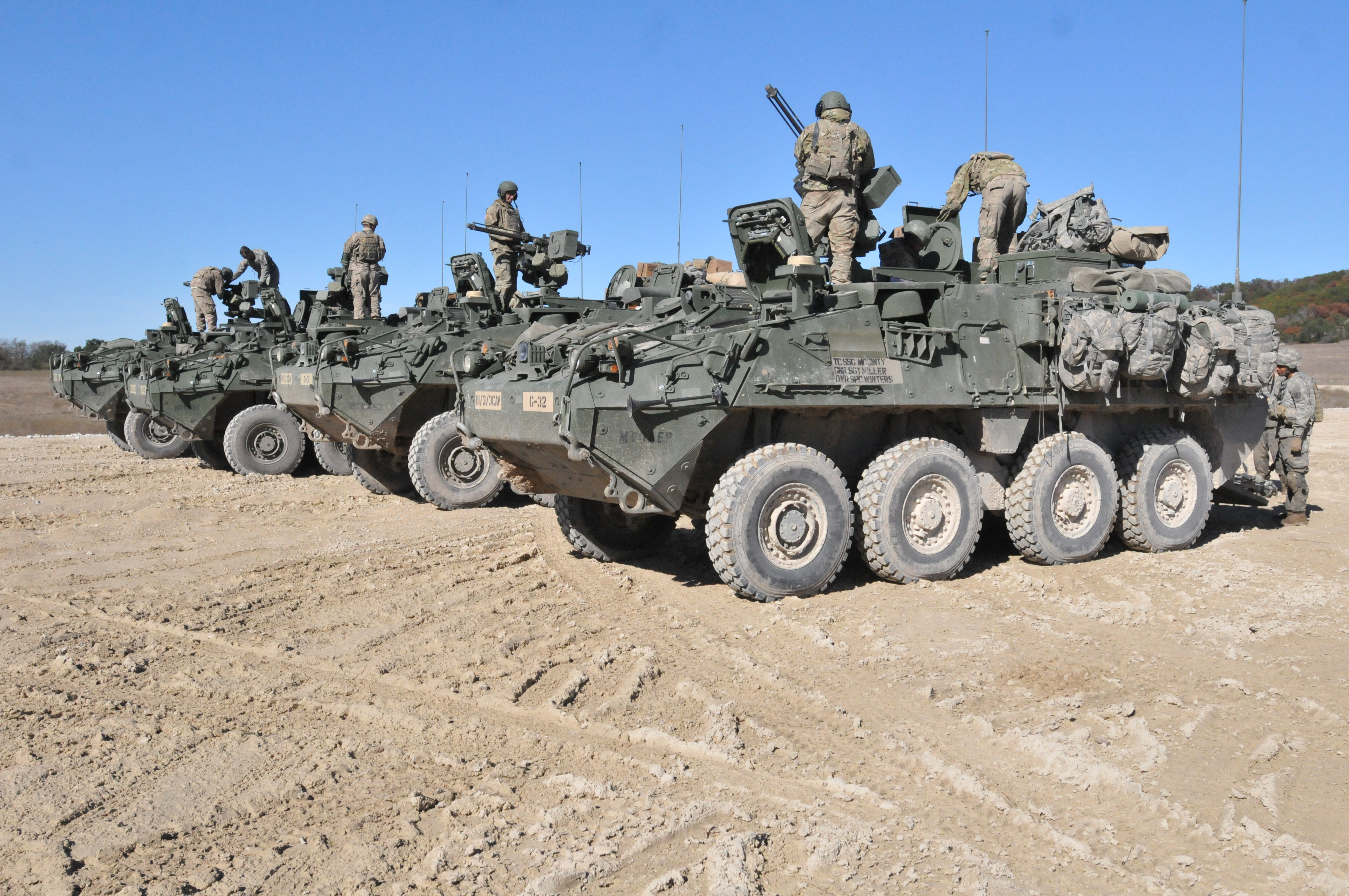 Stryker vehicles of Grim Troop, 3rd Squadron "Thunder", 3rd Cavalry Regiment participate in a field training exercise at Ford Hood, Texas on December 7, 2015. (U.S. Army photo by Spc. Erik Warren, 3d Cavalry Regiment PAO)